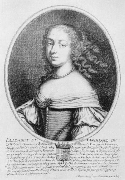 Élisabeth de Bourbon, Dowager Duchess of Nemours in circa 1652; widow of the Duke of Nemours, she was a grand daughter of Henry IV of France and Gabrielle d'Estrées.